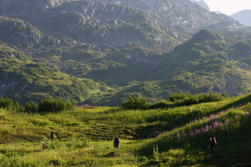 Erin McKittrick, Ground Truth Trekking